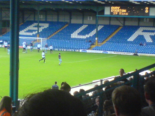 Gigg Lanes Manchester Road Stand